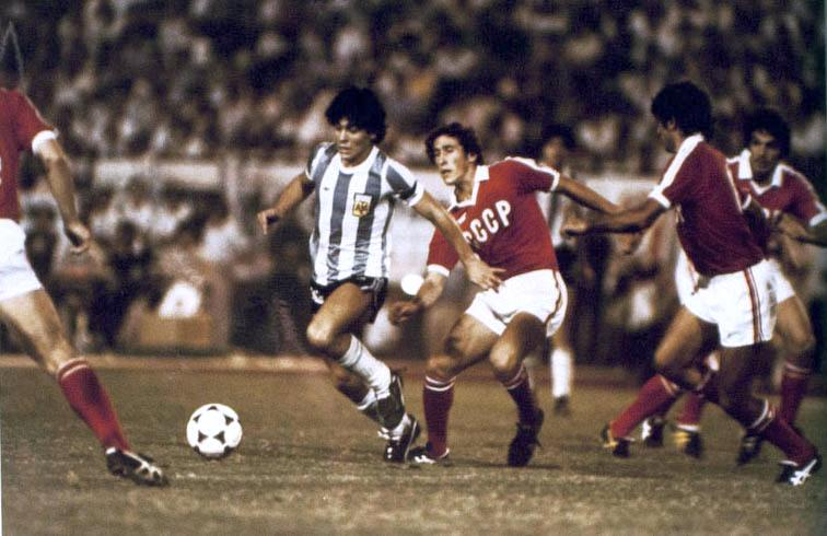 Argentina v. URSS at the 1979 FIFA World Youth Championship. Diego Mardona carrying the ball.